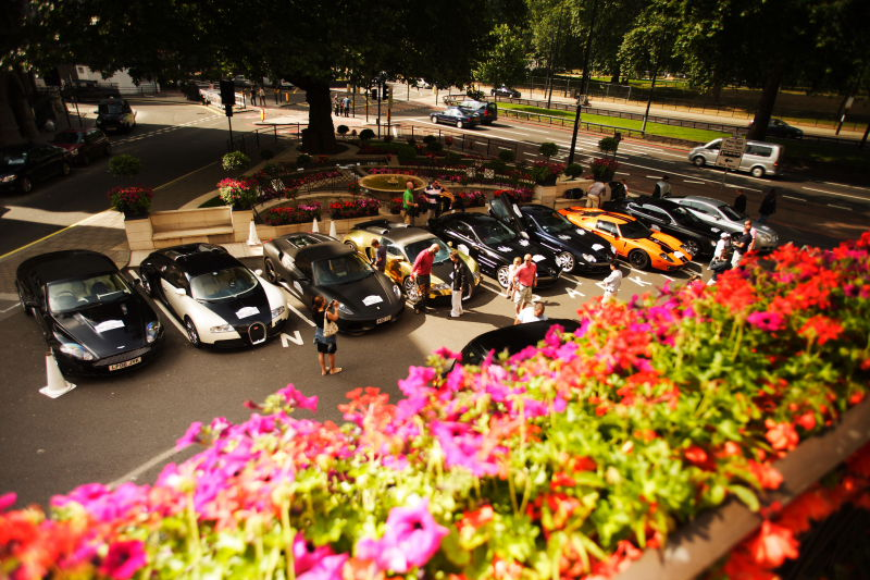 A series of cars line up in a parking lot before the start of the Dodgeball Rally at the Dorchester on Park Lane, 28 June 2009